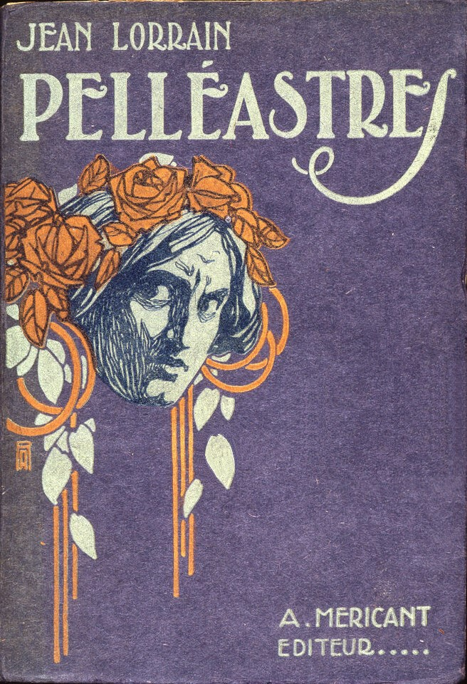 Book cover of Pelléastres by Jean Lorrain, Paris, Albert Méricant, 1910 - illustration by Armand Rapeño.